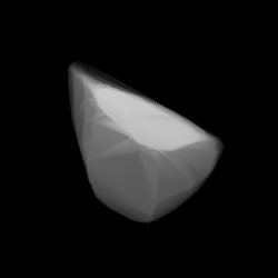 3D convex shape model of 1985 Hopmann, computed using light curve inversion techniques. J. Hanuš, J. Ďurech, M. Brož, B. D. Warner (June 2011). "A study of asteroid pole-latitude distribution based on an extended set of shape models derived by the lightcurve inversion method". Astronomy and Astrophysics 530: A134. ISSN 0004-6361. arXiv